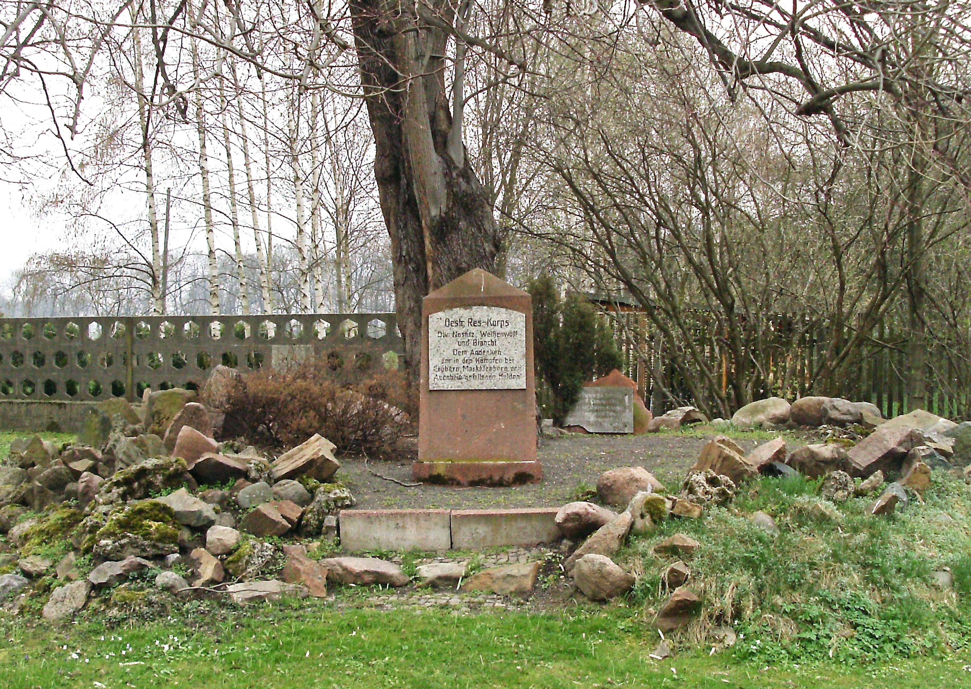 Memorial to the Austrian reserve corps in the Battle of Leipzig, in the former gardens of Wachau estate (Markkleeberg, Leipzig disctrict, Saxony)